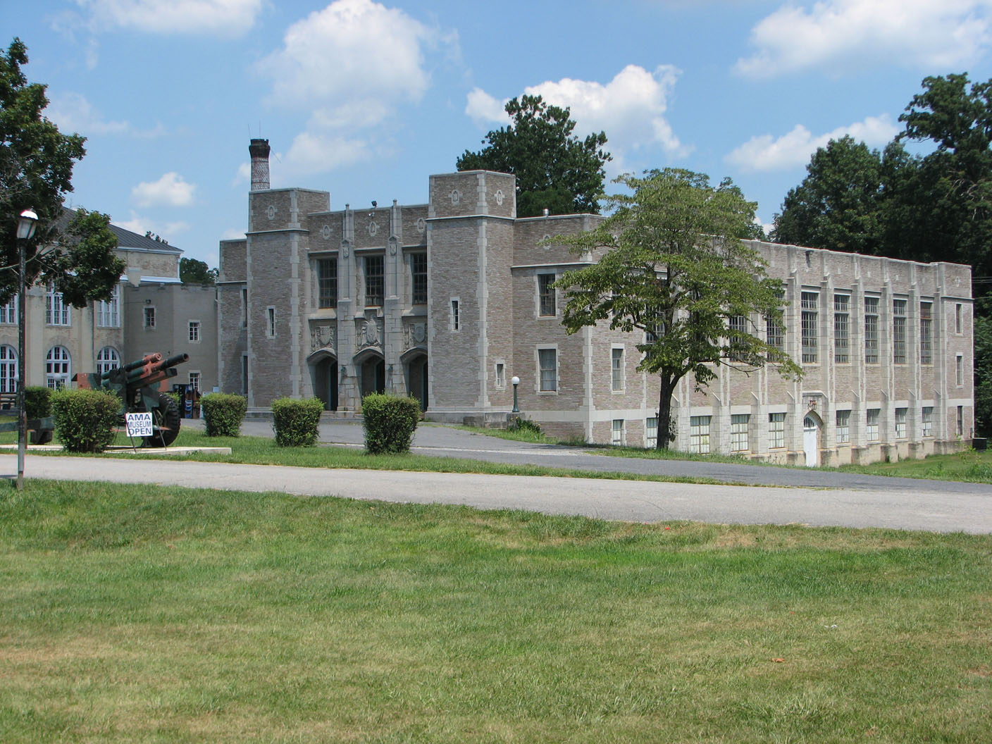 Photograph of the field house at the Augusta Military Academy in Augusta County, Virginia, taken by RebelAt|, on August 12, 2006.